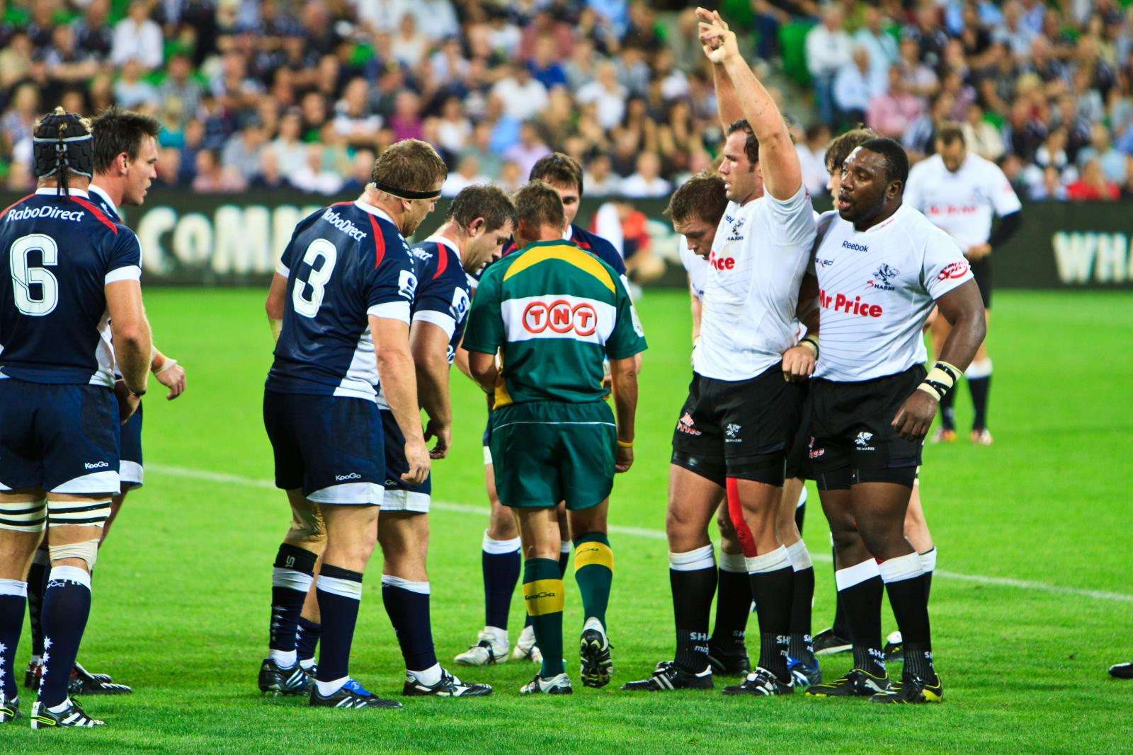 Rabodirect Rebels vs Sharks Rabodirect Rebels vs Sharks in the 2011 Super Rugby competition